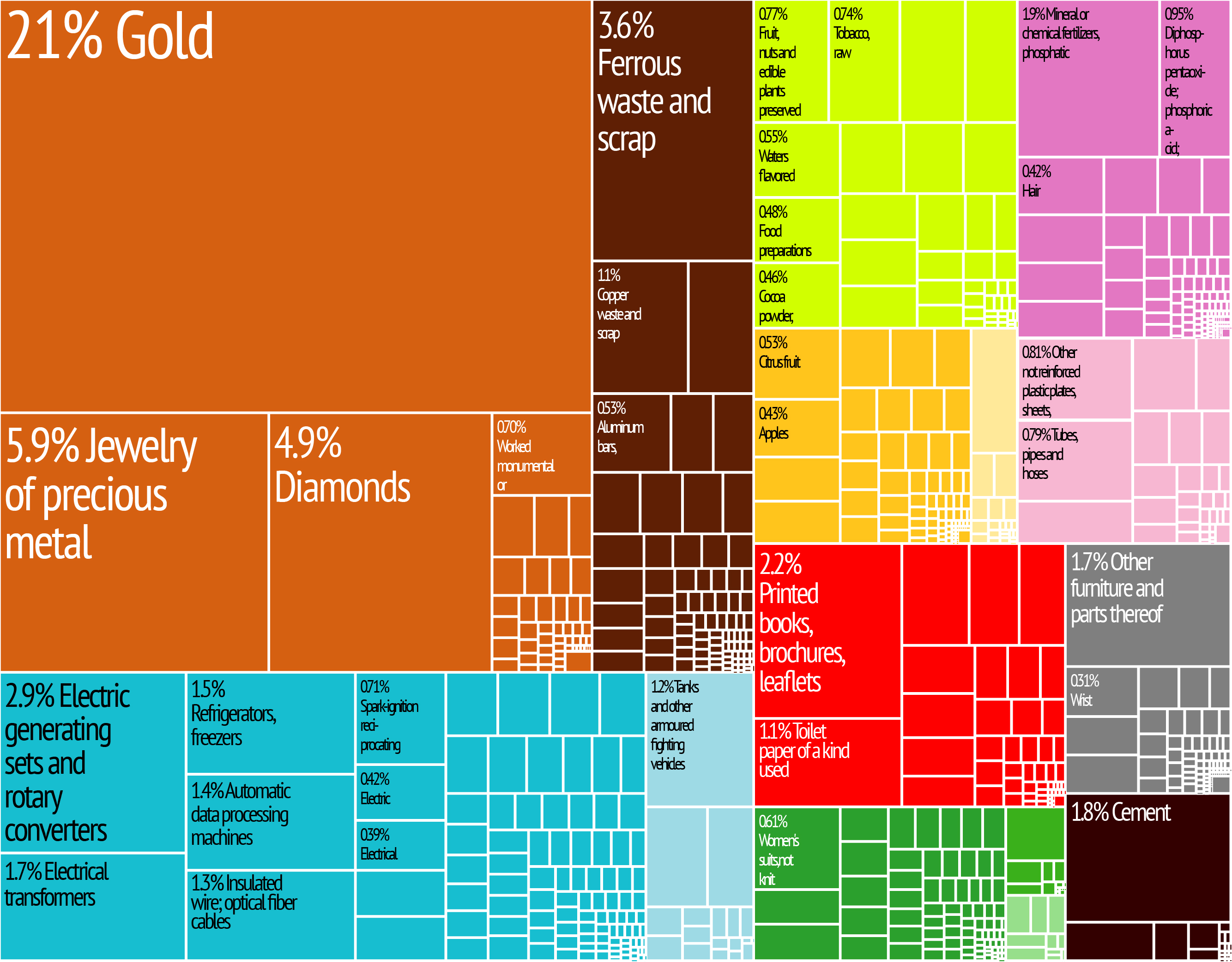 Lebanon Export Treemap from MIT Harvard Economic Complexity Observatory